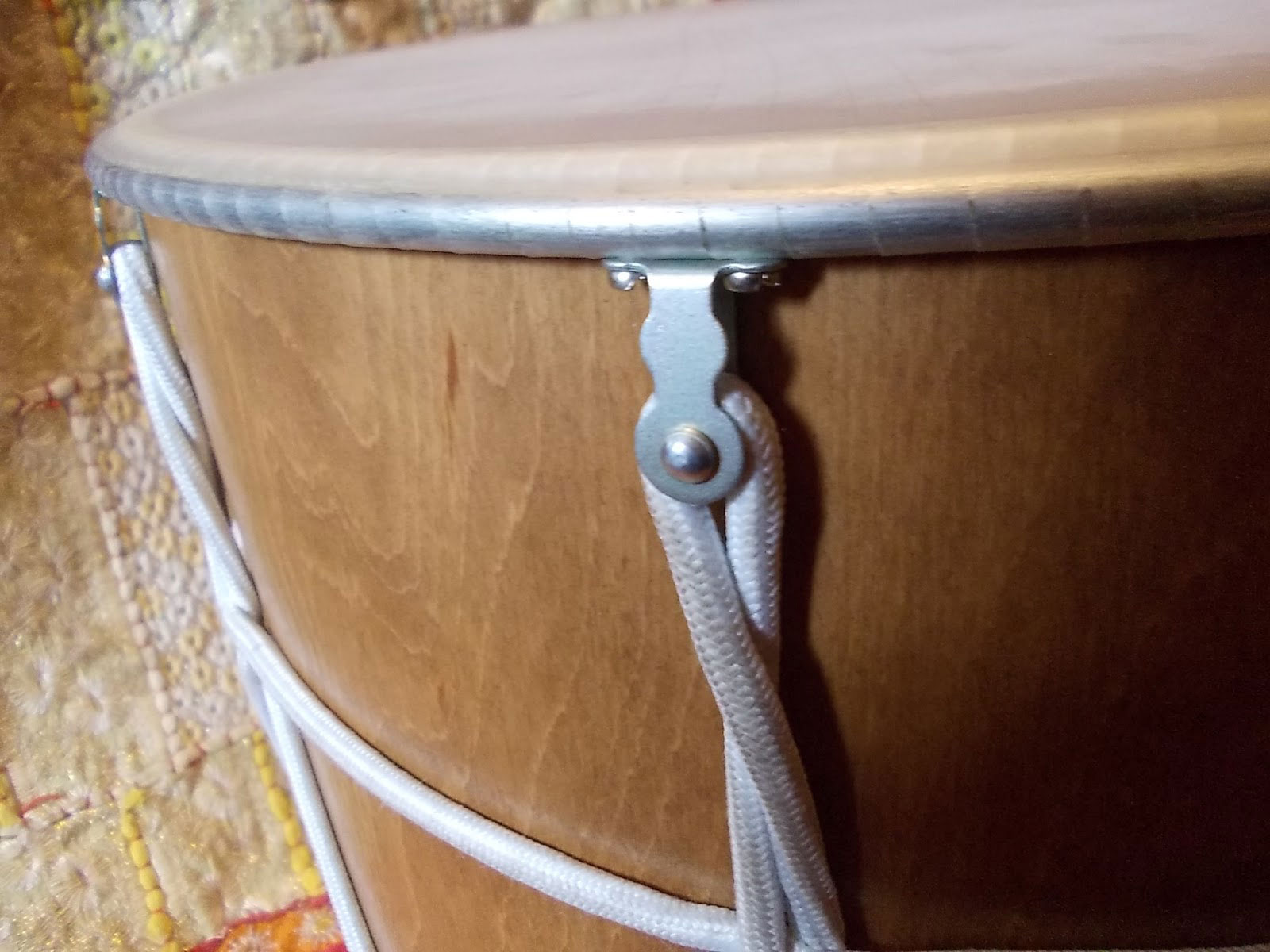 By Sergei